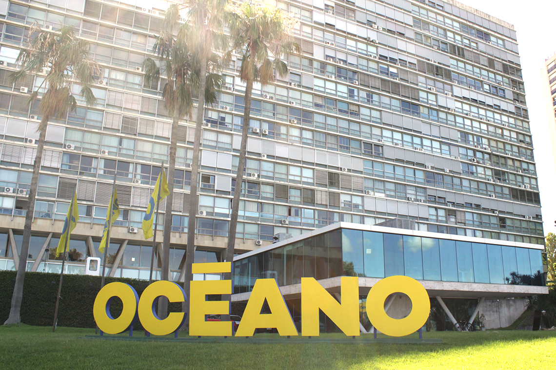 Fotografía del predio donde está ubicada la emisora radial Océano, frente al Puertito del Buceo de Montevideo (Uruguay)